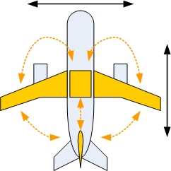 graph depicting ballast tanks in an airplane